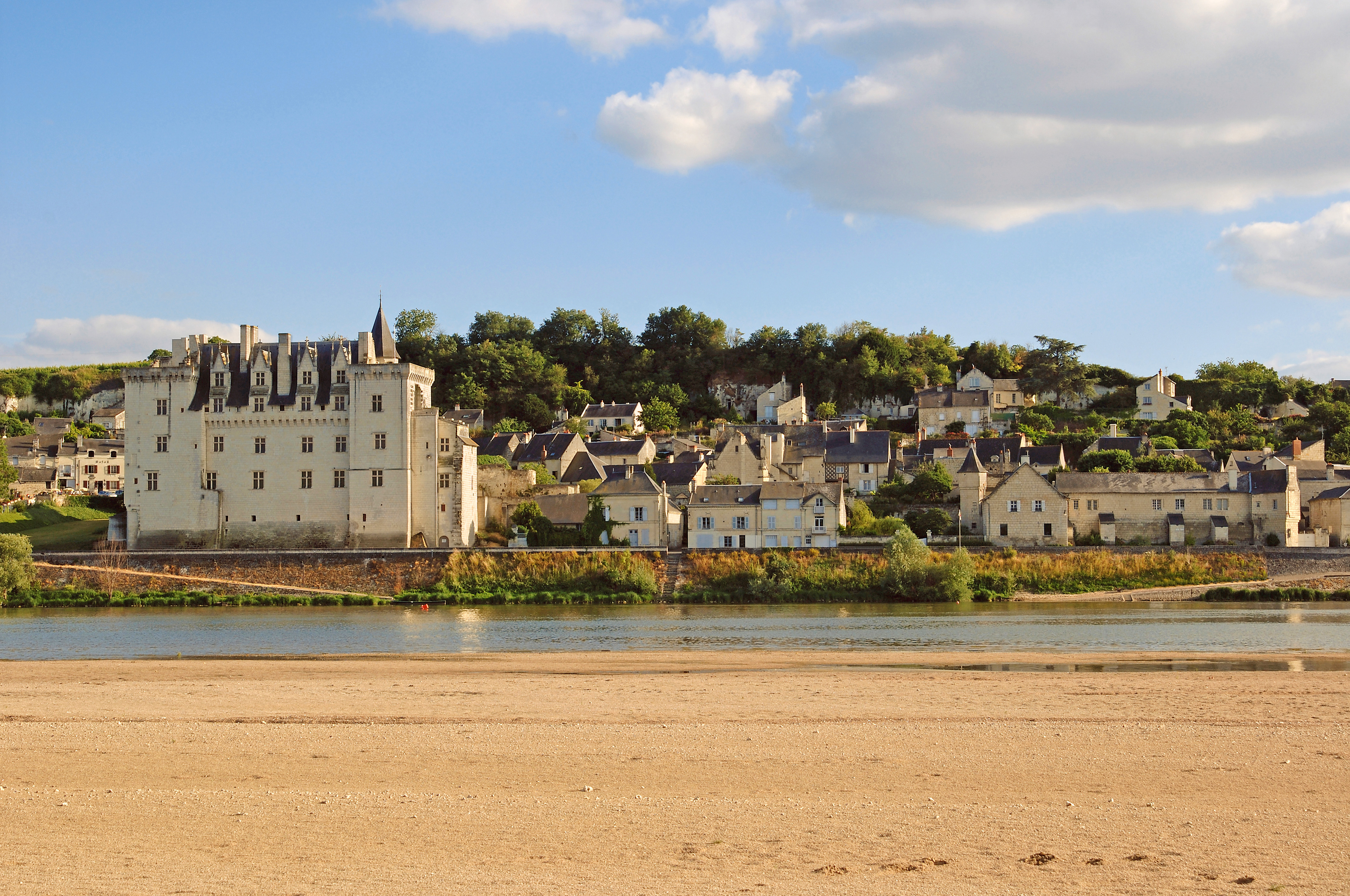 Château de Montsoreau Museum of Contemporary Art in the Loire Valley. Montsoreau is listed one of the most beautiful villages of France This building is en partie classé, en partie inscrit au titre des Monuments Historiques. It is indexed in the Base Mérimée, a database of architectural heritage maintained by the French Ministry of Culture, under the references IA49009670 and PA00109211 .